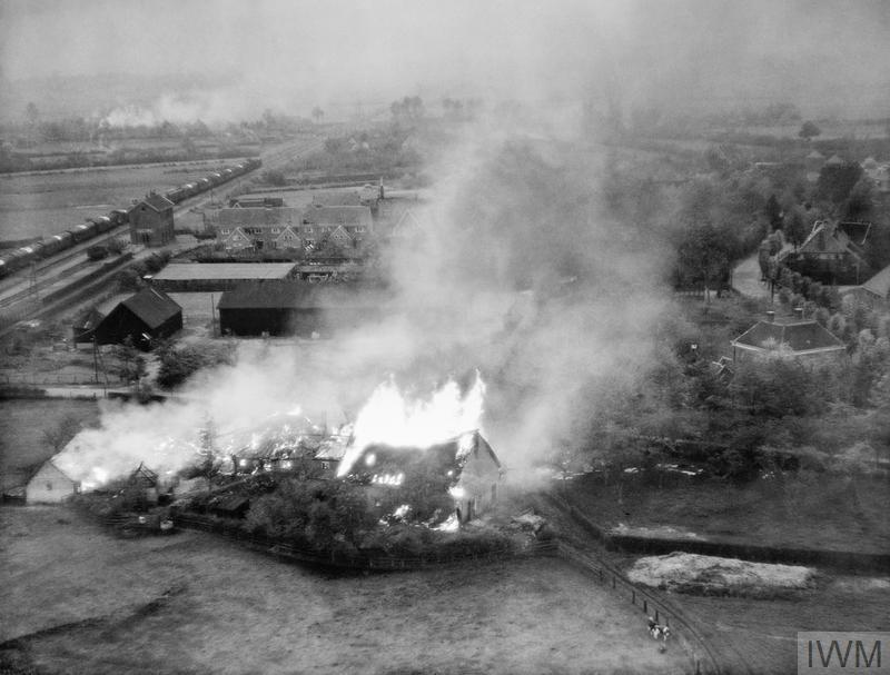 British flame-throwing tanks were used against German troops in Rosmalen, East of s'Hertogenbosch, and the result can be seen in this photograph from the air. On the left of the picture is a German Red Cross train intact.